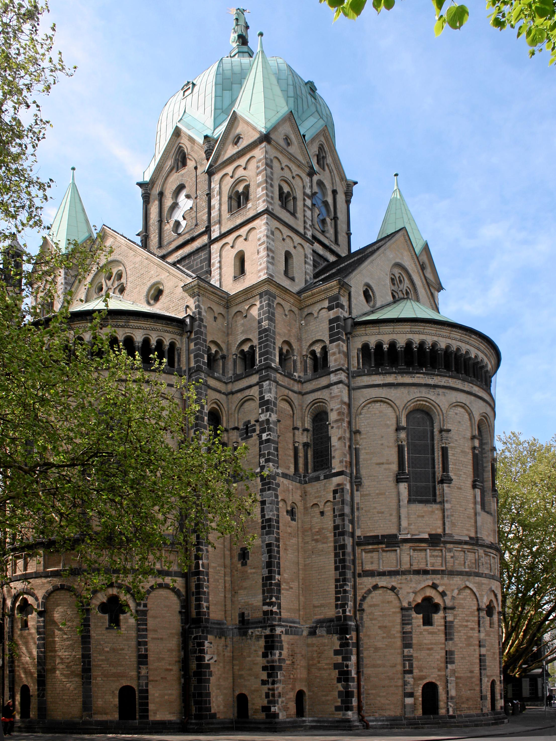 Neuss, Germany. Roman-catholic church Saint Quirinus, exterior from South-East.